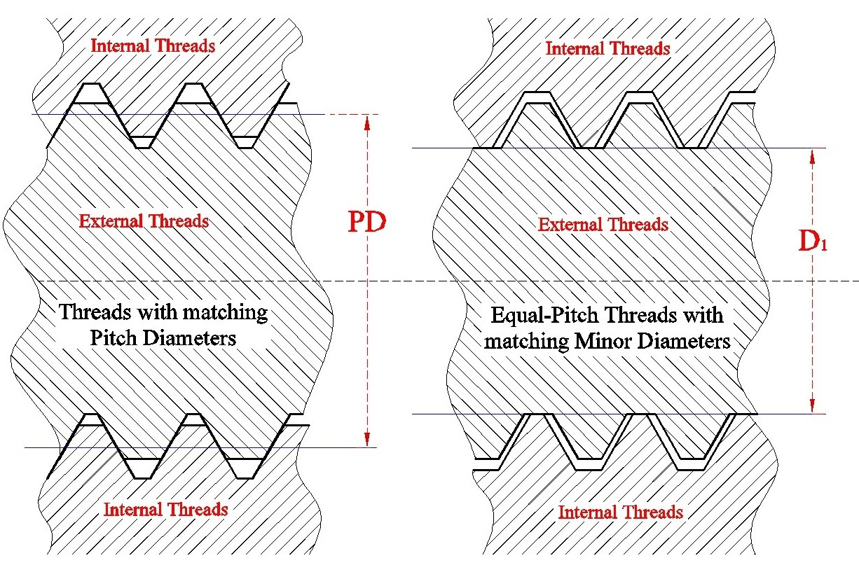 Screw Threads & Threading